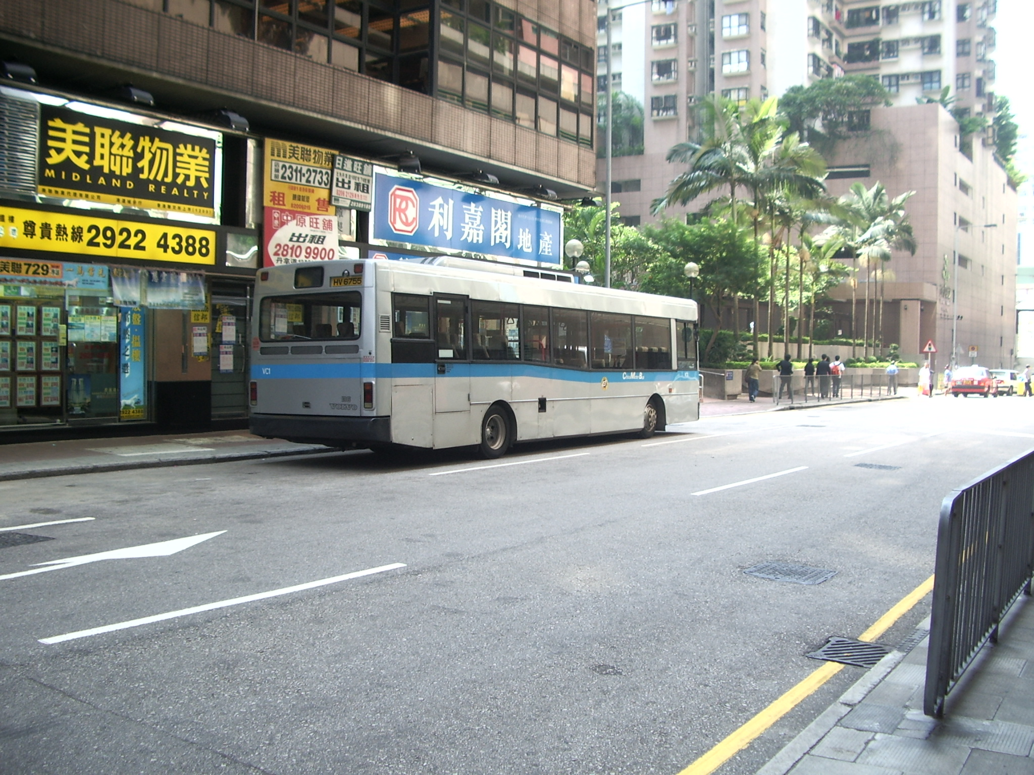 Rear view of China Motor Bus VC1, operating as a shuttle between Island Place and North Point Government Offices. Bus stopped at Tanner Road (opposite Island Place), North Point, Hong Kong. Taken on 22 October 2005 by Carlsmith.